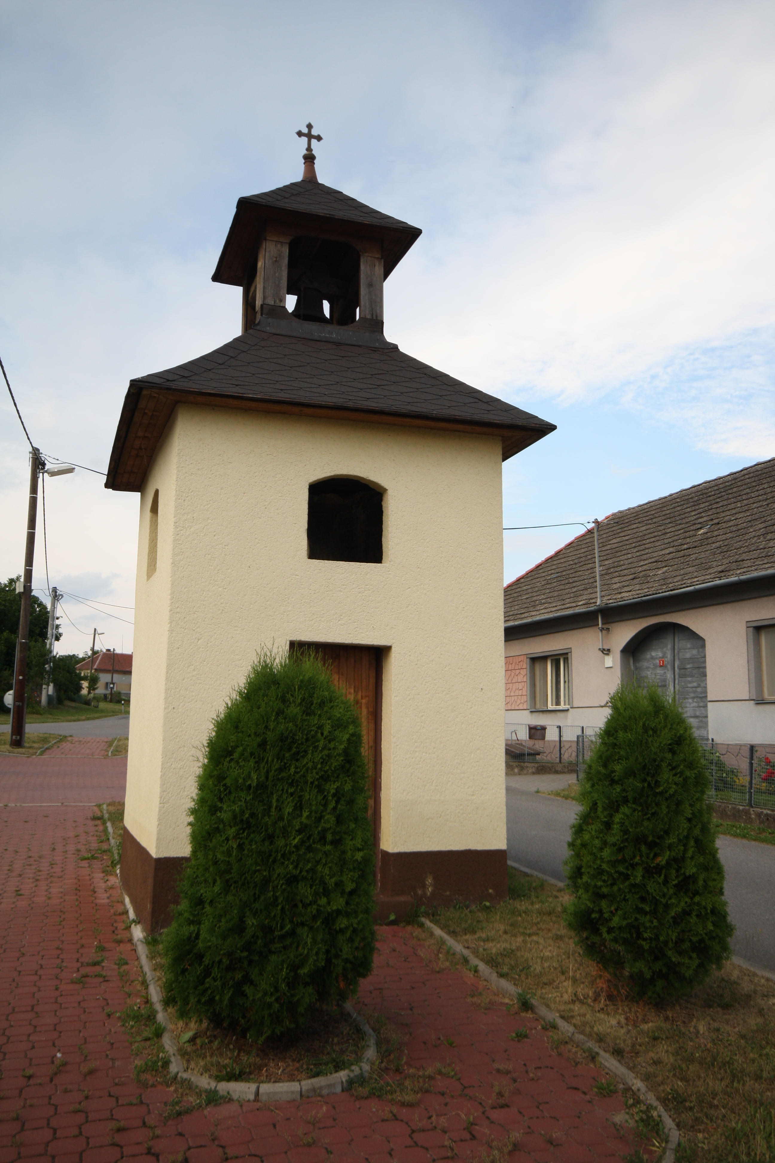 Chapel in Jedov, Náměšť nad Oslavou, Třebíč District.